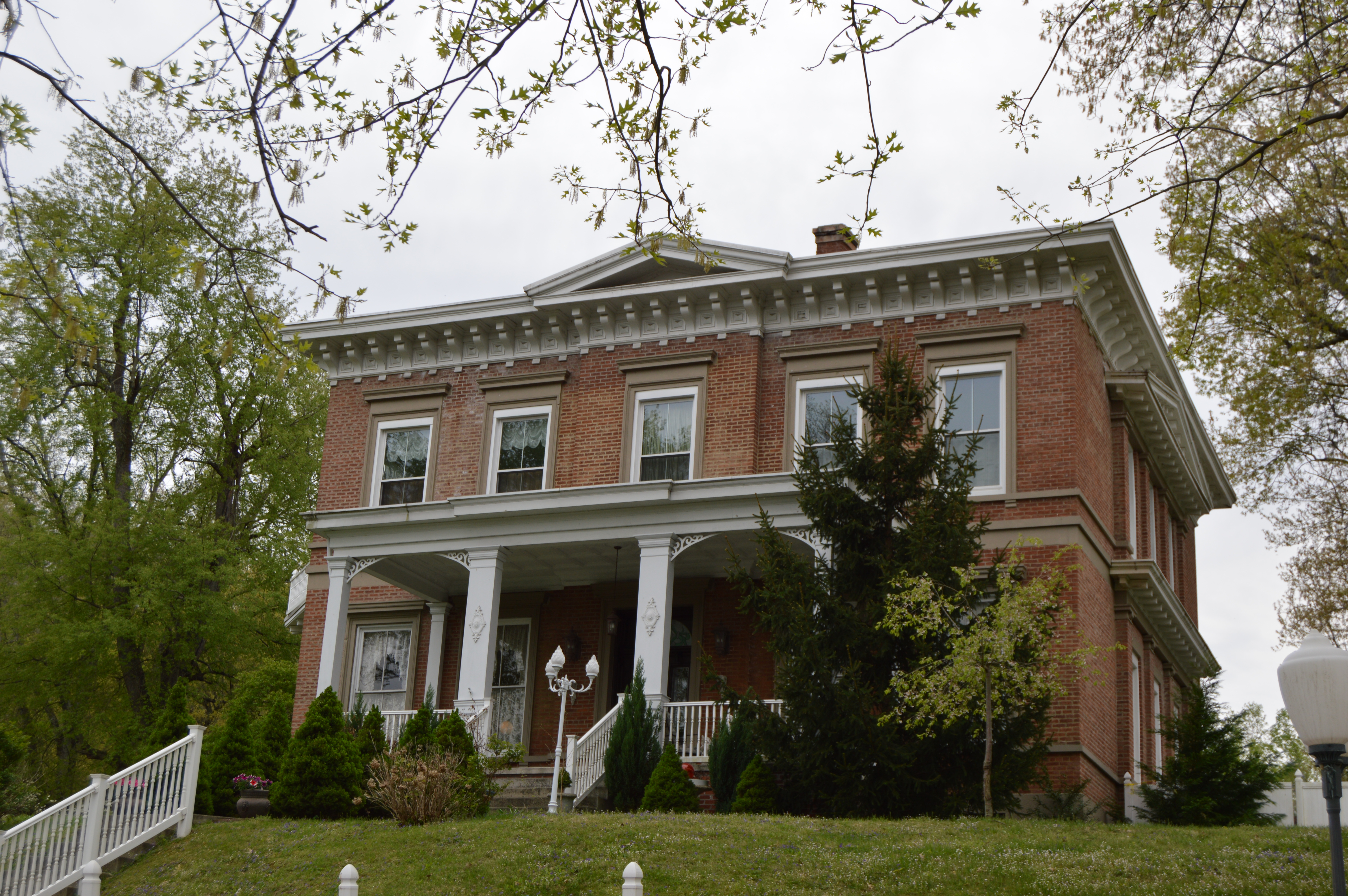 Front and western side of the Culbertson House, located at 1520 Chestnut Drive in Ashland, Kentucky, United States. Built in 1876, it is listed on the National Register of Historic Places.